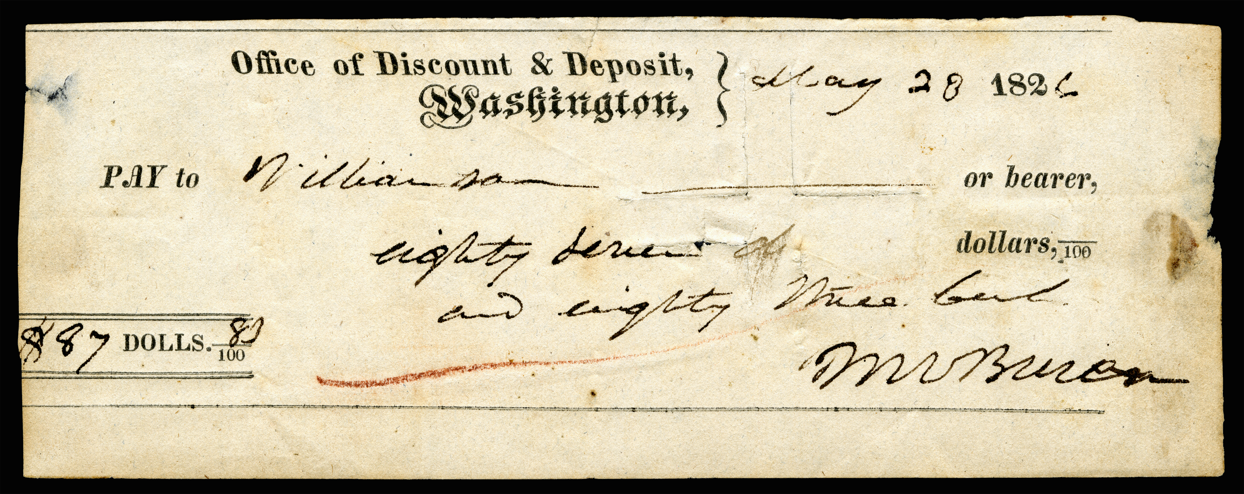 A signed check by Martin Van Buren (8th President of the United States) while serving as US Senator, New York.